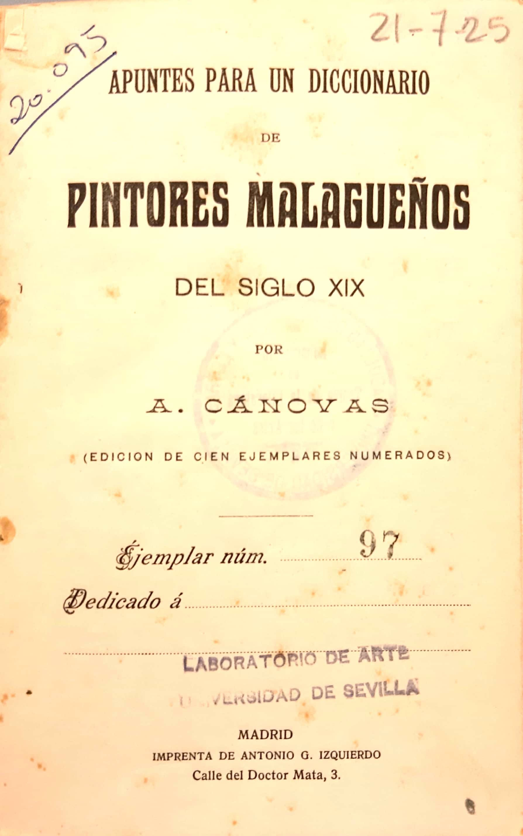 Autor:Cánovas del Castillo y Vallejo, Antonio (1862-1933). Título:Apuntes para un diccionario de pintores malagueños del siglo XIX /por A. Cánovas. Publicación:Madrid : [s.n., s.a.] (Imprenta de Antonio G. Izquierdo) Descripción física:85 p. ; 17 cm. Notas:BNE, 23/04/2009, da como fecha para esta ediciòn 1908. Lugar:España - Madrid Arte 21-7-25